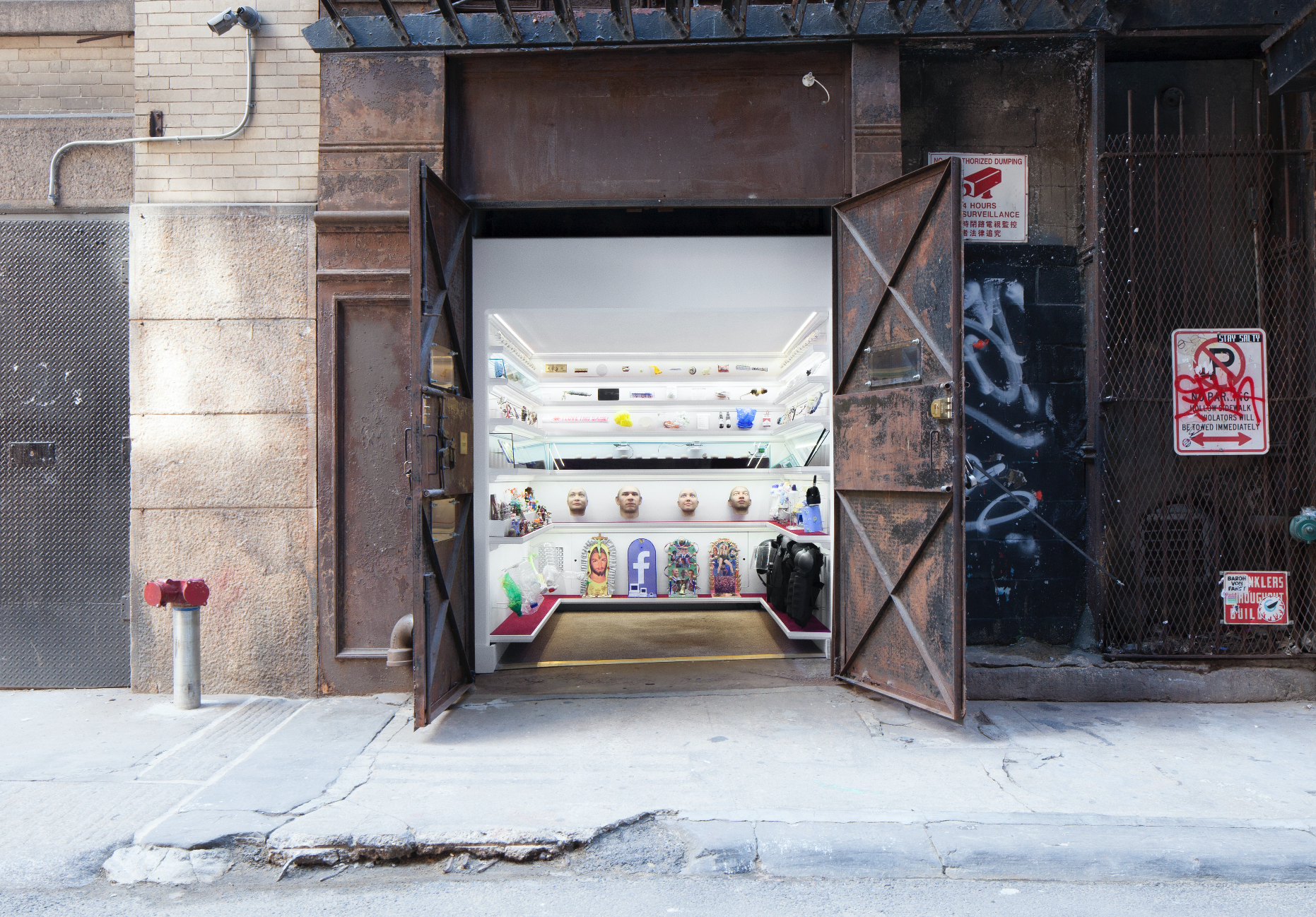 Mmuseumm 1 Season 4 Exterior